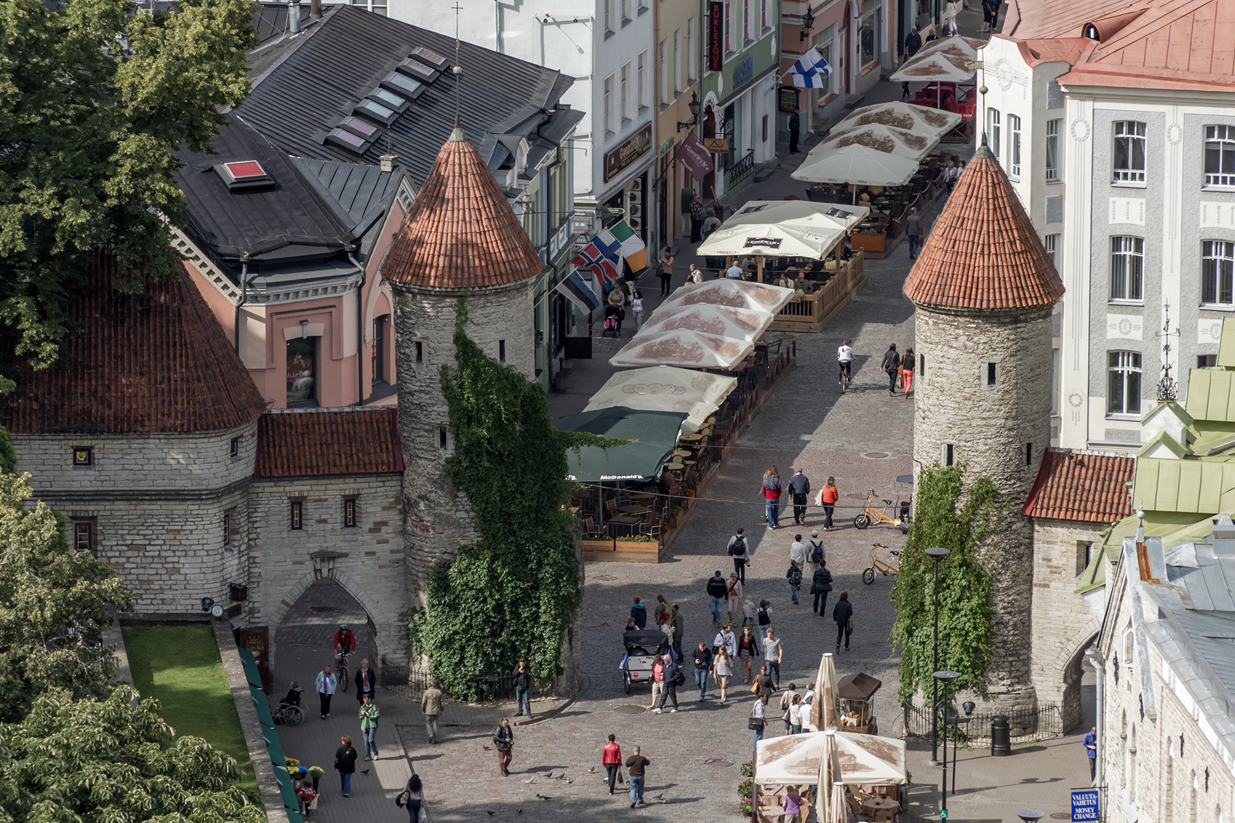 Foregate of Viru Gates in Tallinn, August 2012